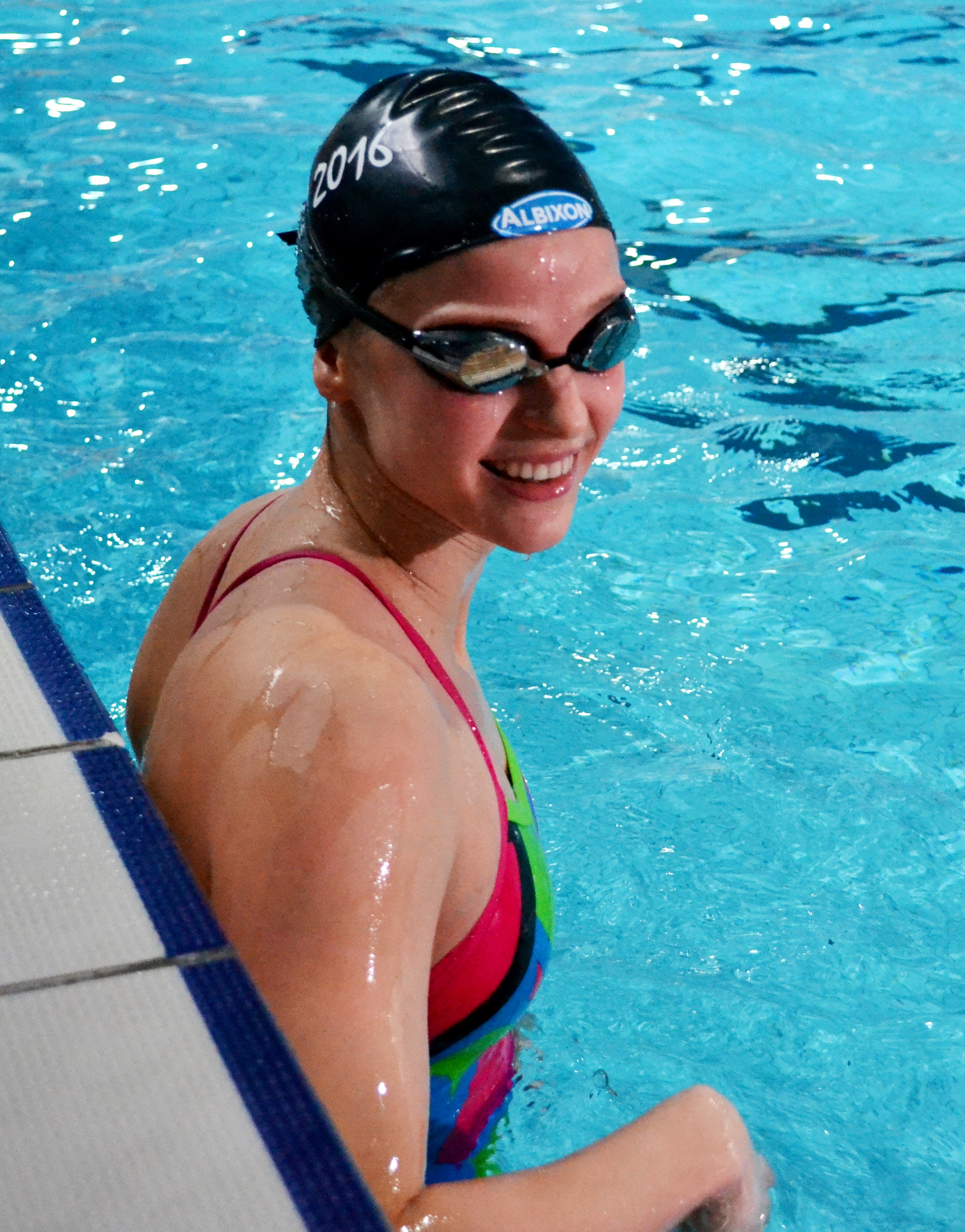 Simona Baumrtová, Czech swimmer